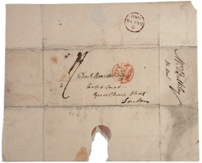 Daniel Reardon recorded the sender and the date : ‘Miss Bulkley 14th Dec’. The postmarks are visible, the clearer noting the date of arrival in London as 18 December 1809.